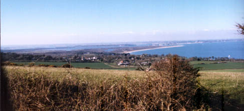 Studland Bay and Poole harbour, Dorset, England. Taken by me in August 2000.